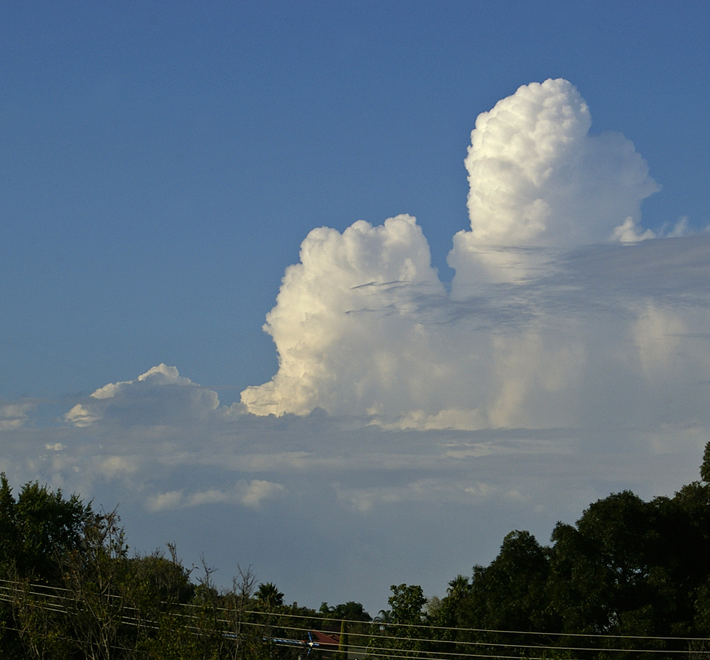 A example of Cumulus congestus which is known as towering cumulus. Because this photograph concerns privacy since this was taken on a private property, only an approximate location is provided: Wagga Wagga, New South Wales, Australia